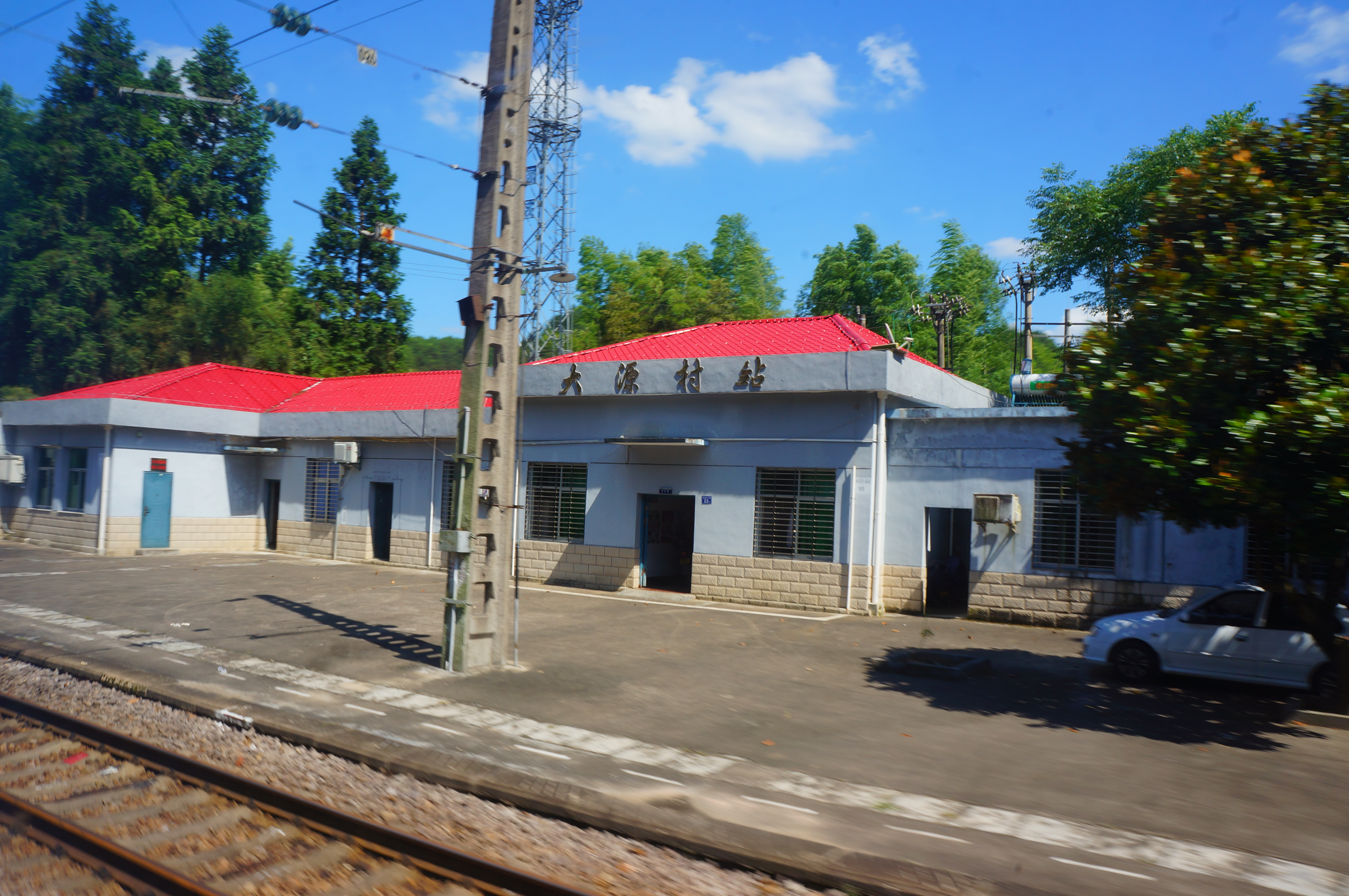 201806 Station Building of Dayuancun Station